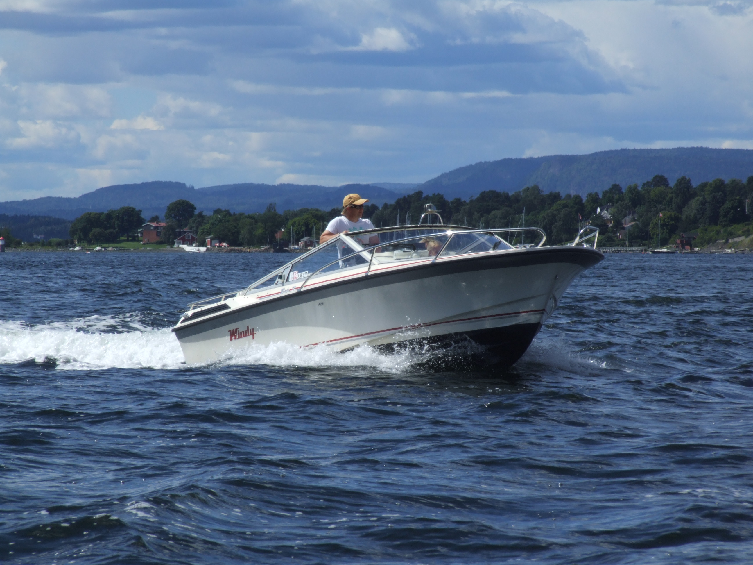 Motorboat in Oslofjord